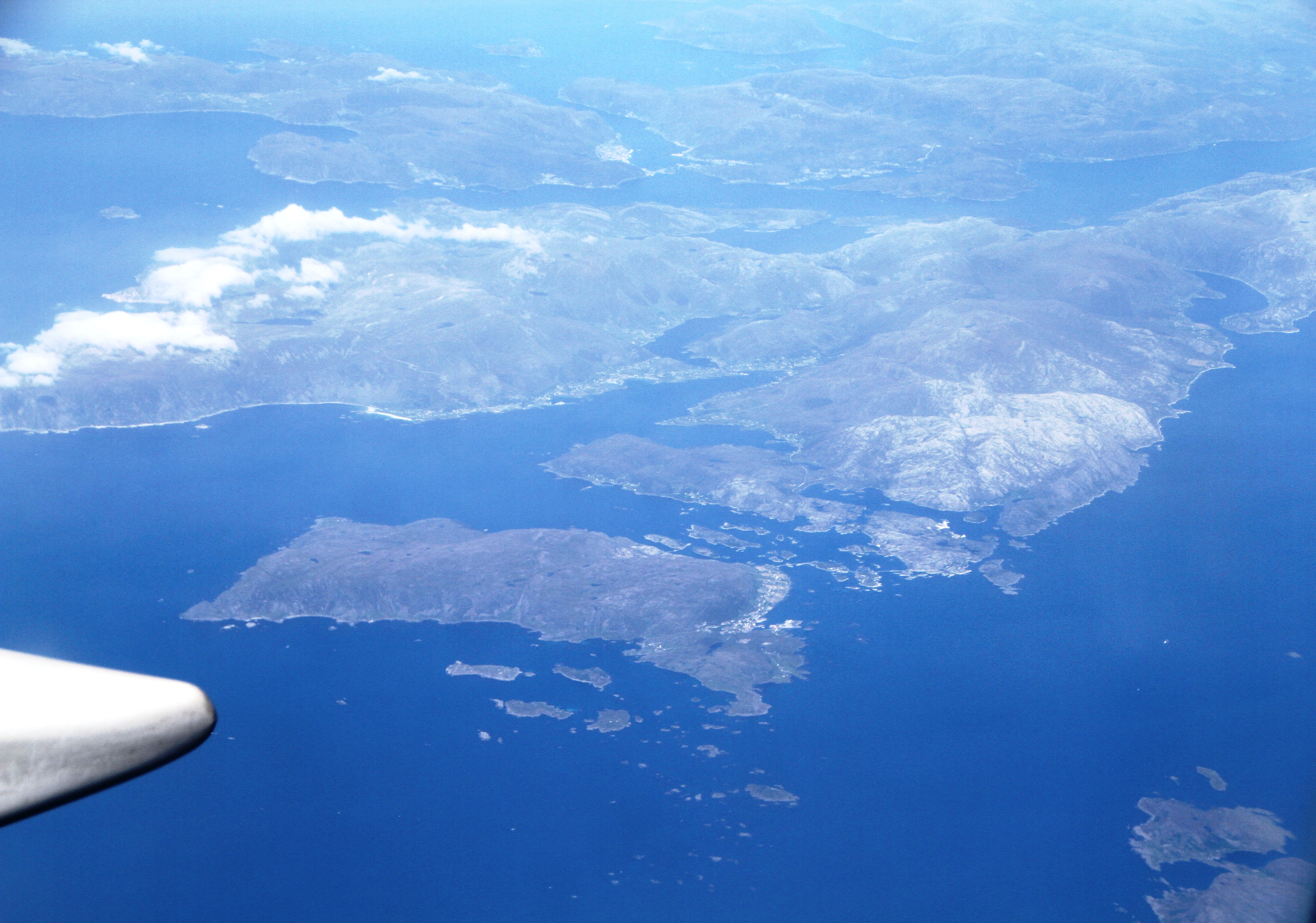 Bremangerlandet peninsula with Frøya island, in the municipality of Bremanger, western Norway